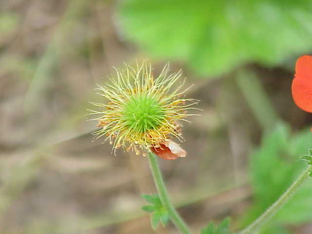 Species: Geum coccineum Family: Rosaceae Image No. 1